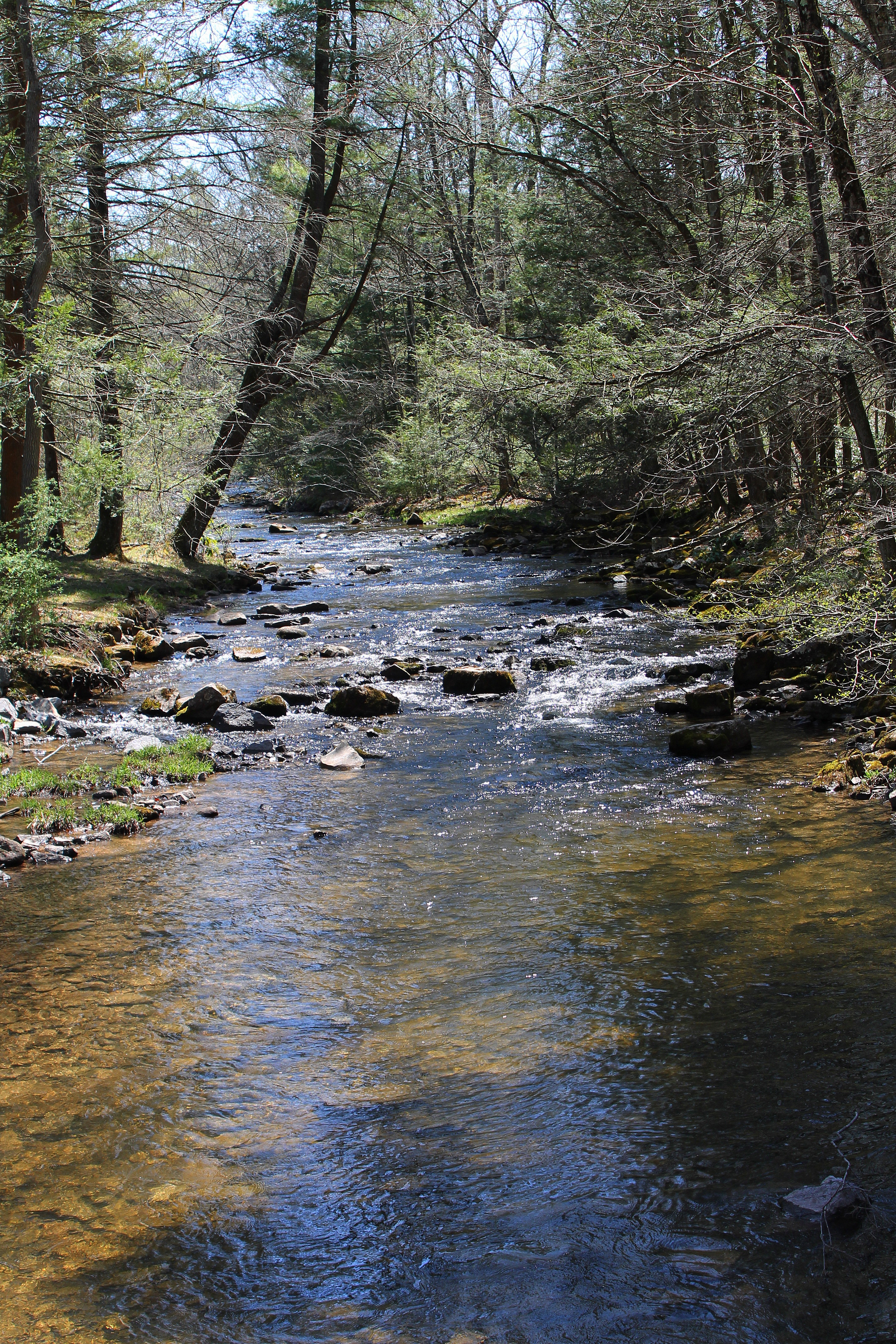 White Deer Creek, a tributary of the West Branch Susquehanna river, in Union County, Pennsylvania, looking upstream above the tributary Sand Spring Run.